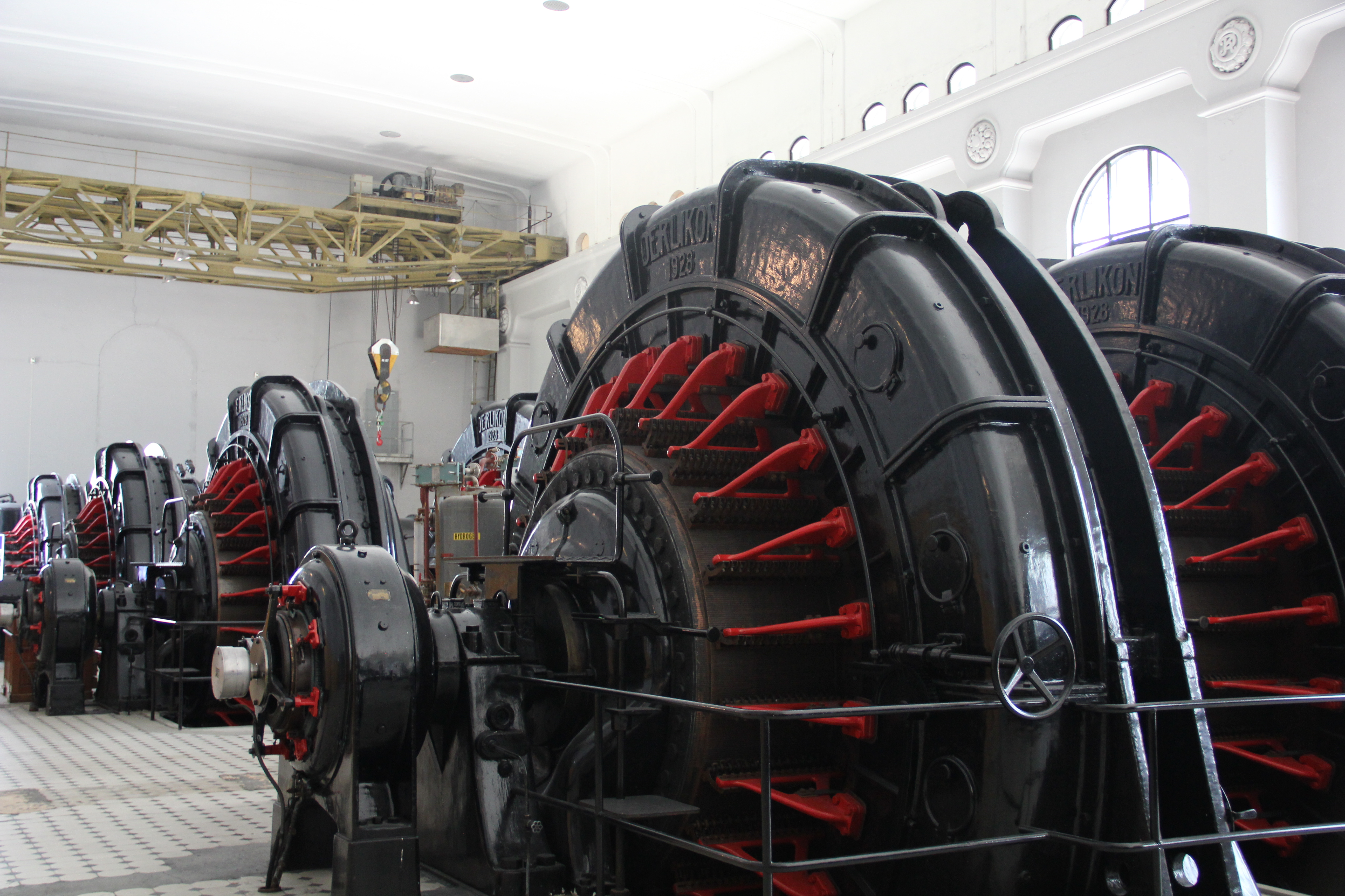 Turbines at the Vemork power plant in Rjukan, Telemark, Norway. Picture taken on July 12, 2018